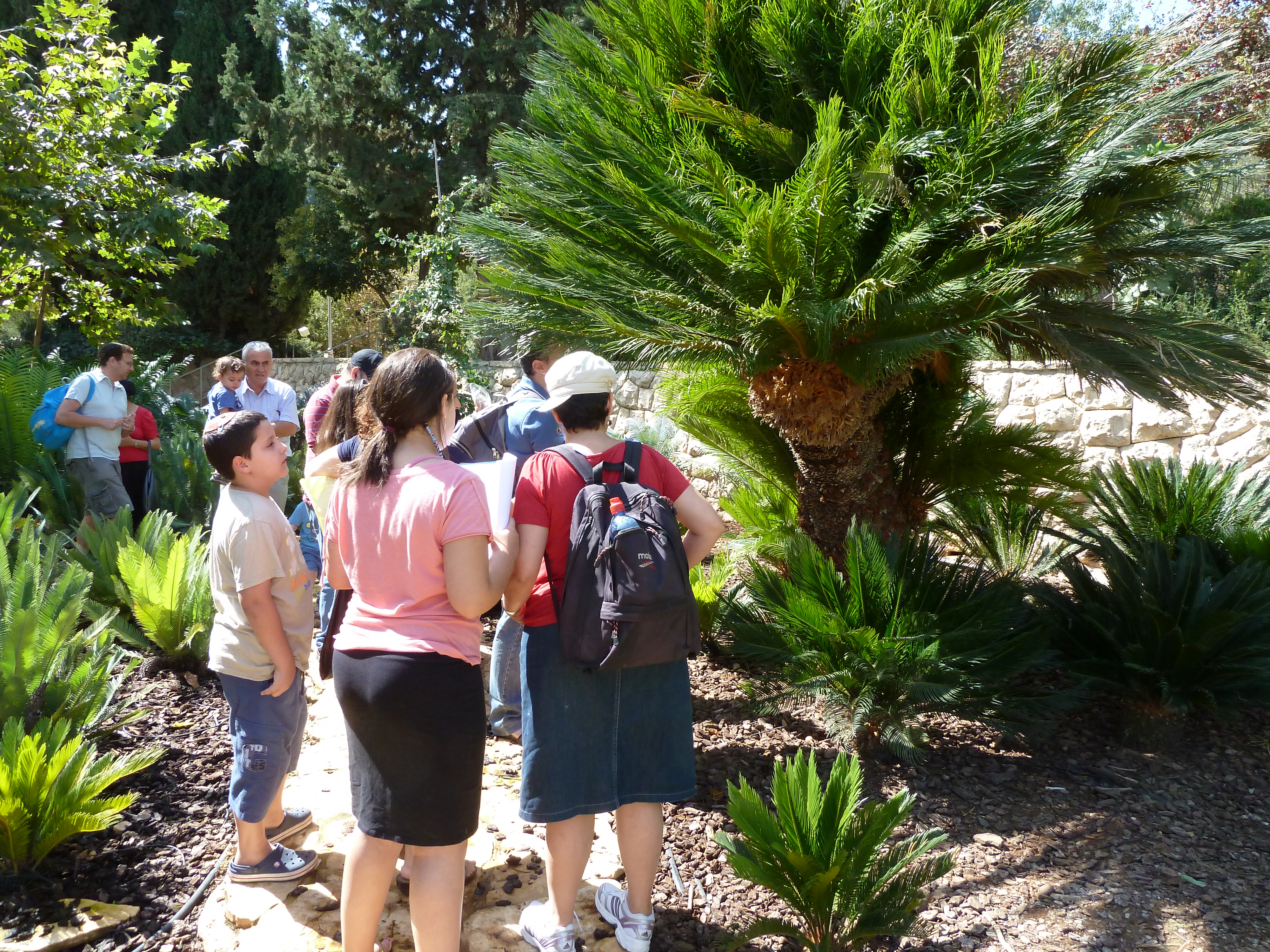 This picture shows visitors exploring the Plant Evolution Garden, in the Hebrew University of Jerusalem's Edmund J Safra campus. The Garden was made by the university's sub-unit Nature Parks and Galleries (NPG)